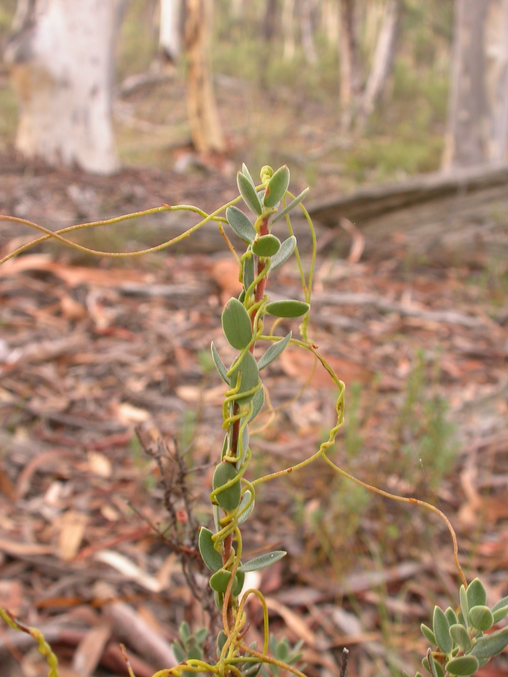 Cassytha pubescens R.Br., parasitising Brachyloma daphnoides (Sm.) Benth., Black Mountain, Canberra, ACT, 4 February 2011